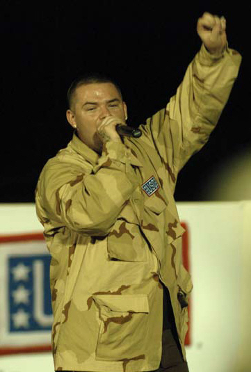 Houston-based rapper Paul Wall wrapped up a week-long USO tour (United Service Organizations) with a performance at the Victory Main Stage August 8. Wall performed his hits “Grillz” and “They Don’t Know.” Camp Victory, Iraq